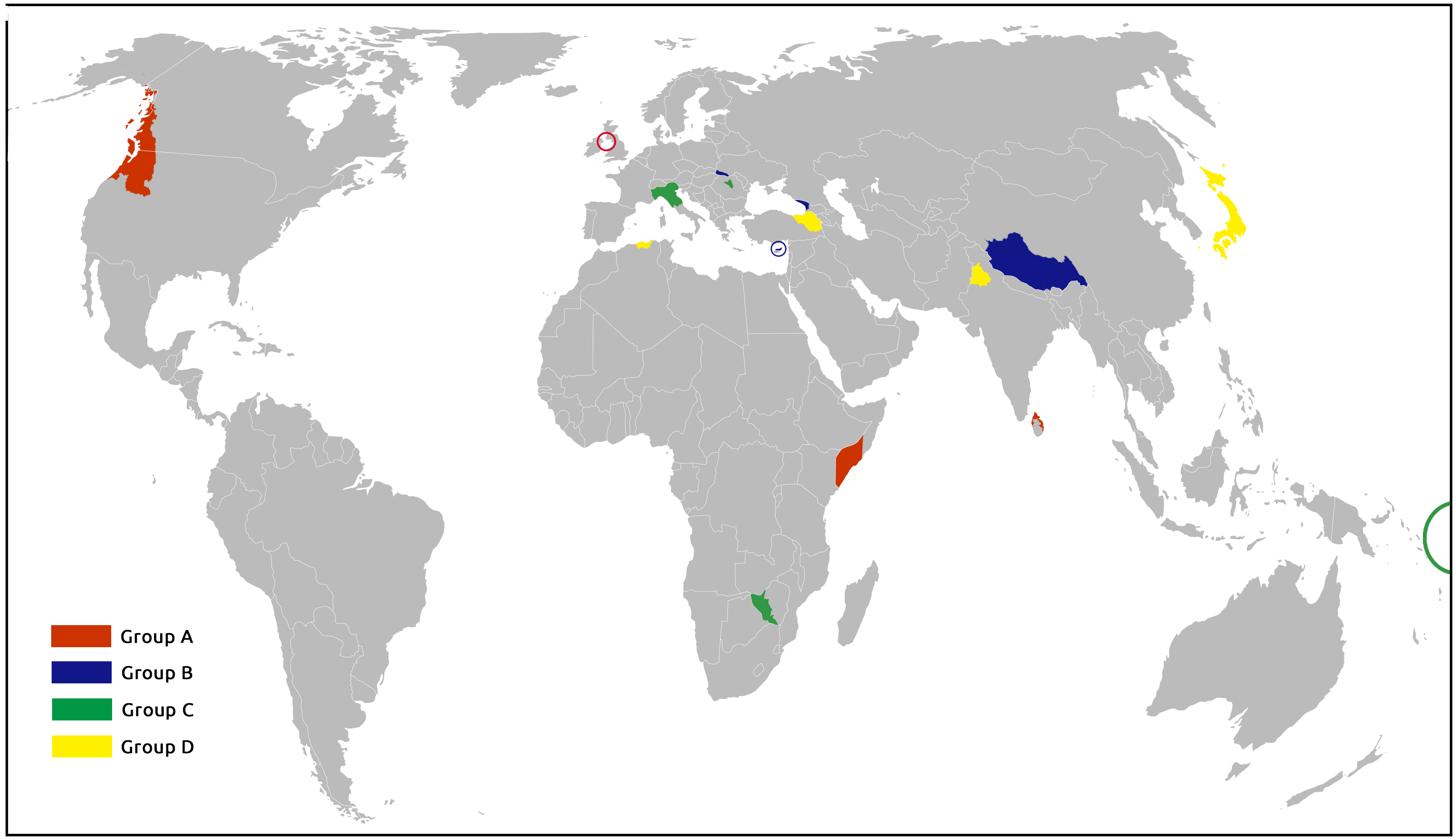 Locations of every team playing the Paddy Power 2018 ConIFA World Cup